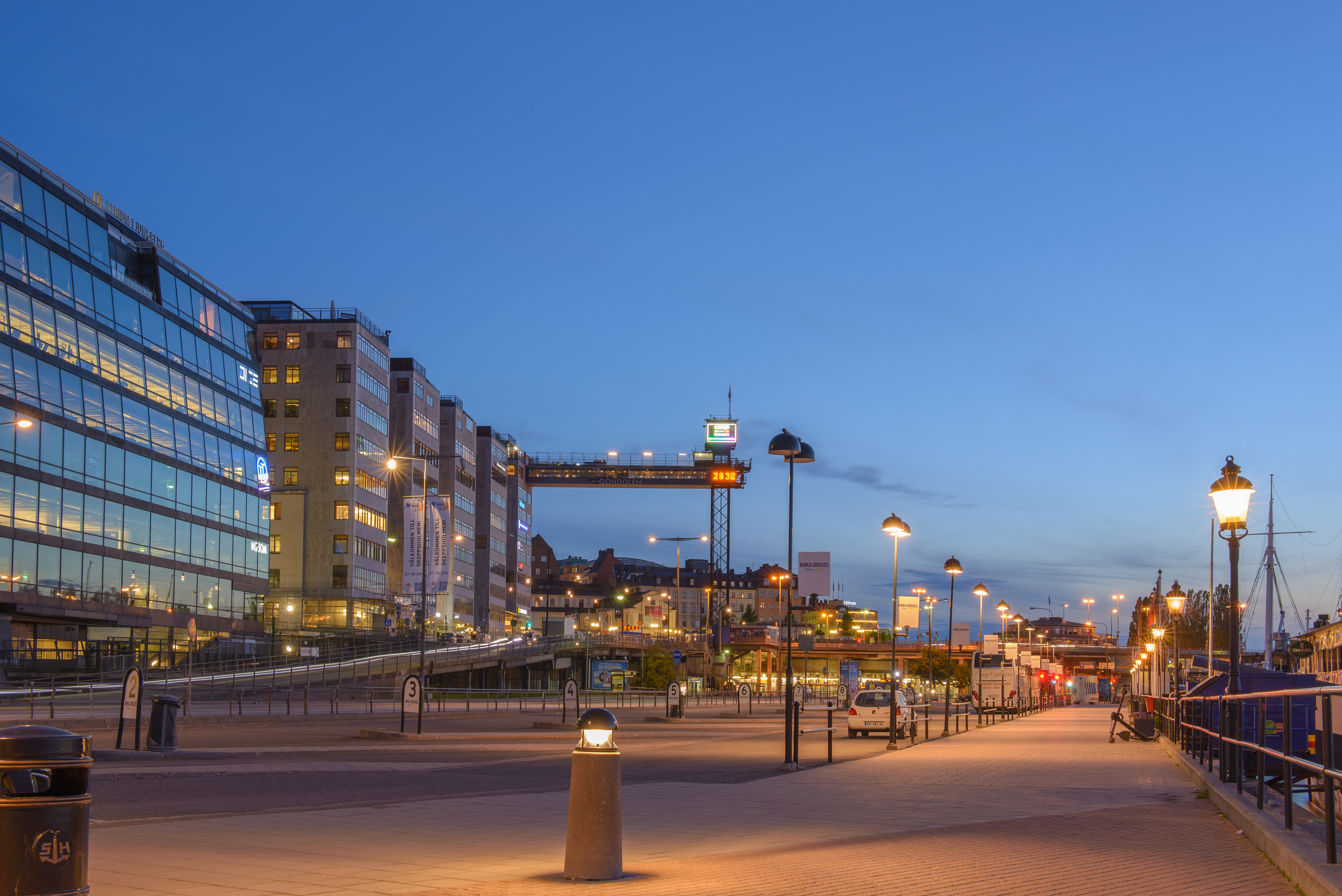 Slussen och Katarinahissen, Stockholm.